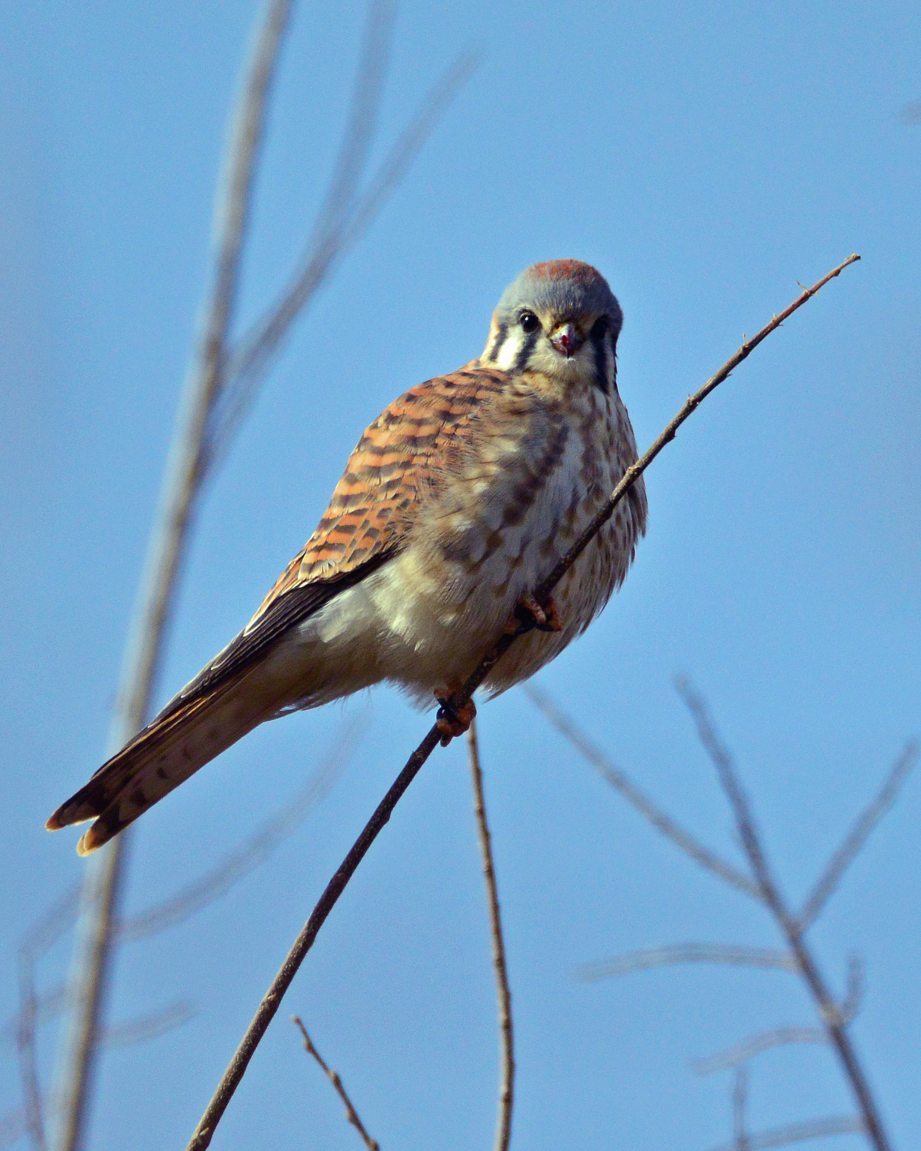 American Kestrel Falco sparverius relaxing in an apple tree at Denver, Colorado.